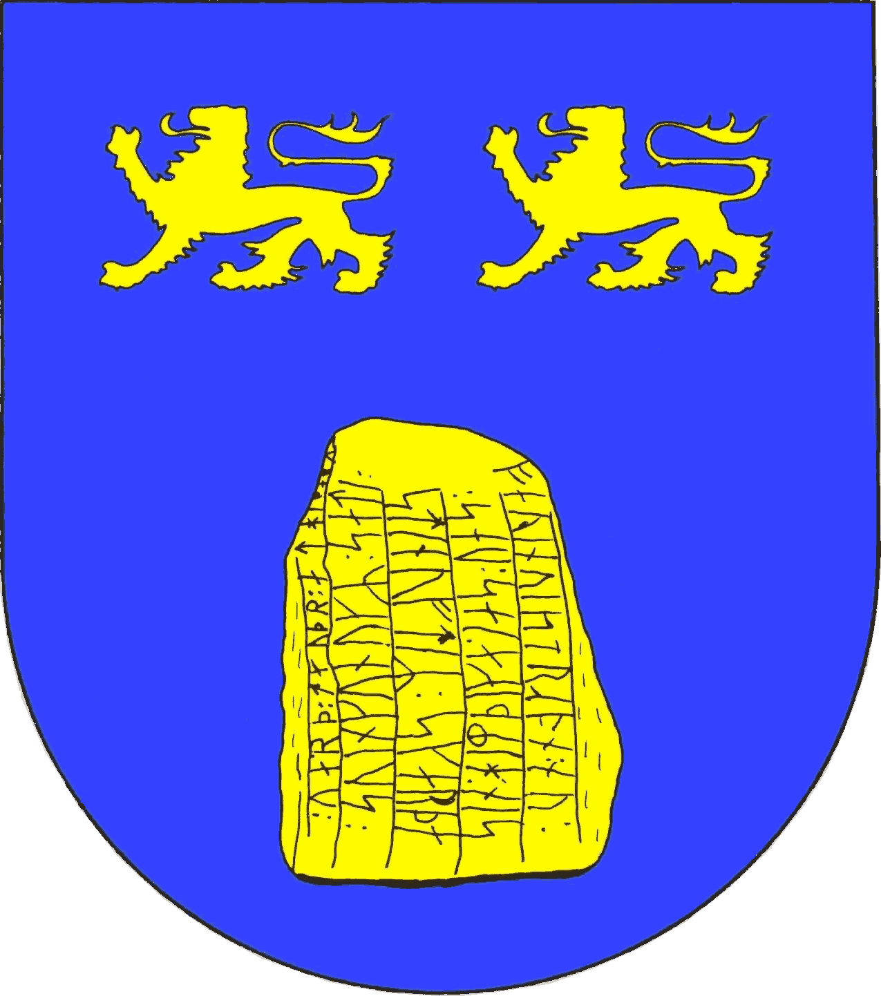 Coat of arms of the municipality Busdorf in Schleswig-Holstein, Germany.